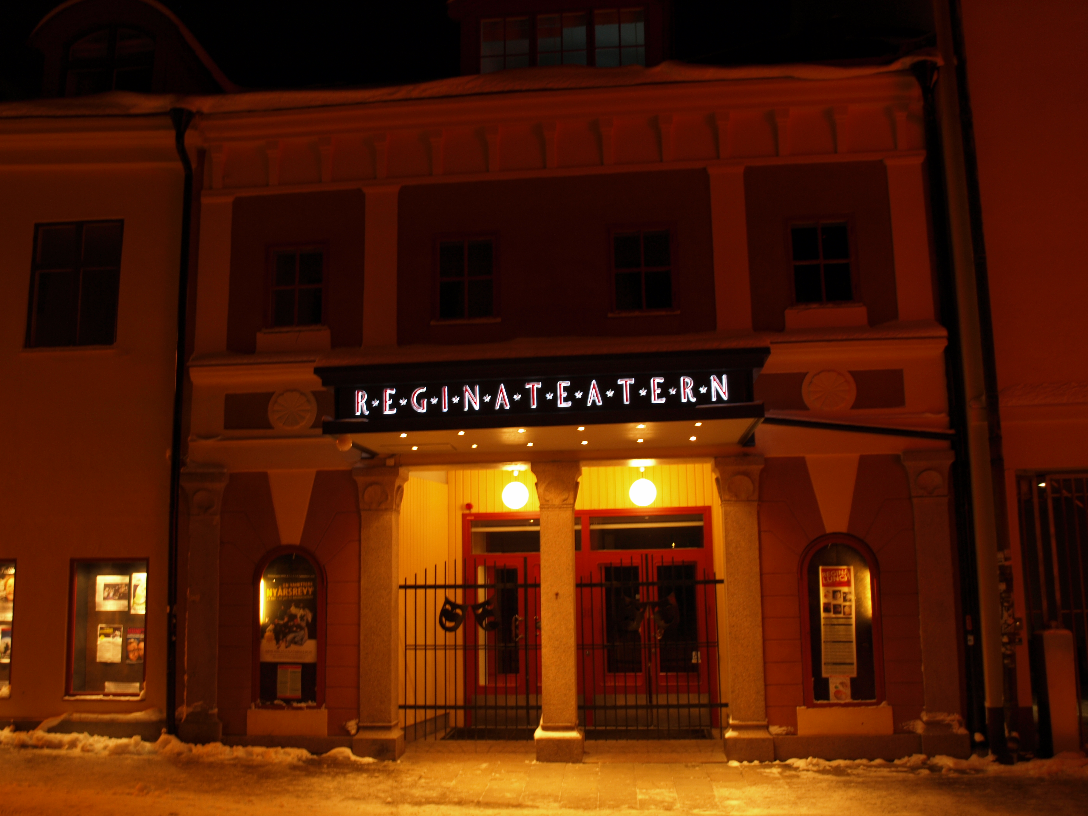 The theatre Reginateatern in Uppsala, Sweden.